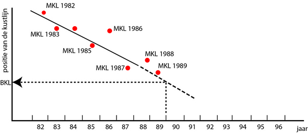 The basic coast line, the coastline of 1990 which will be maintainted